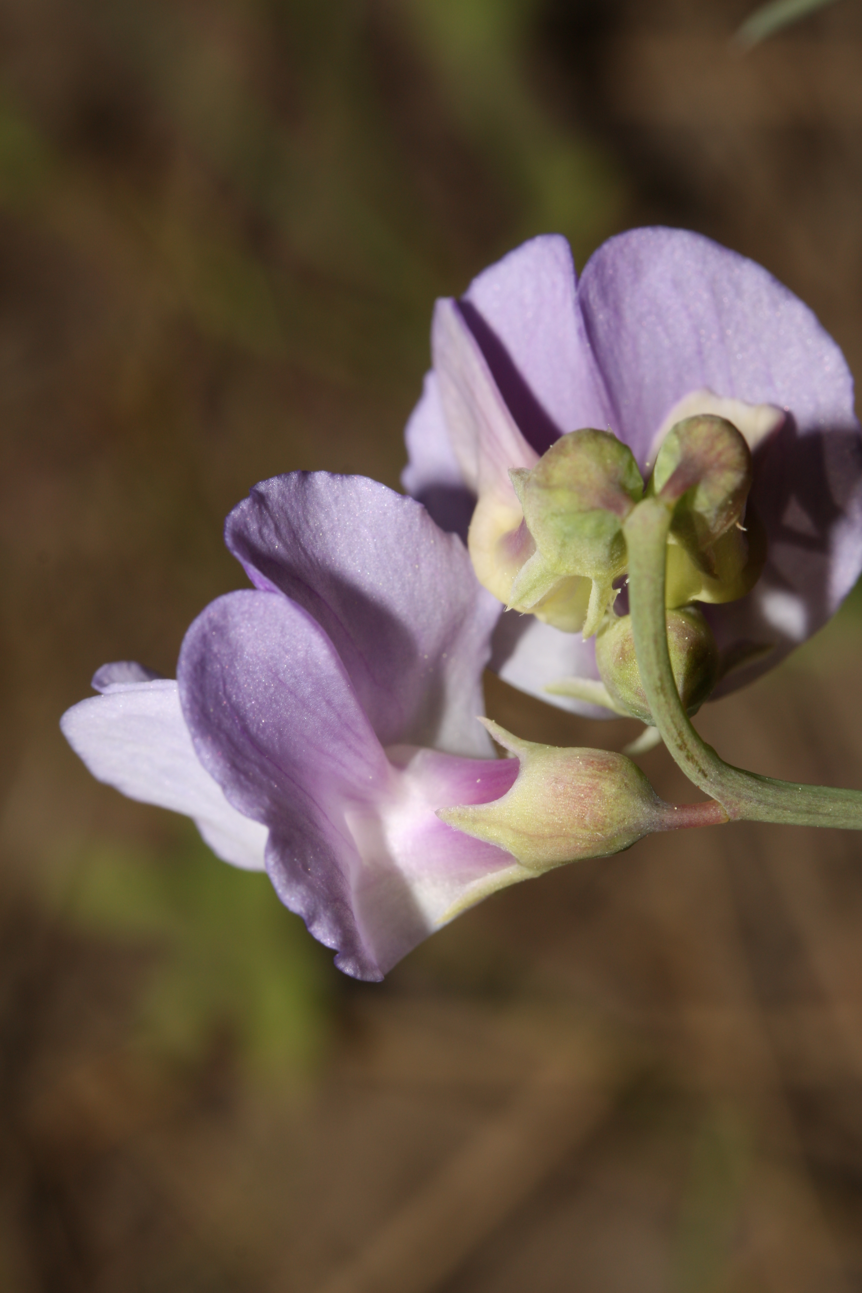 Few-flowered Peavine